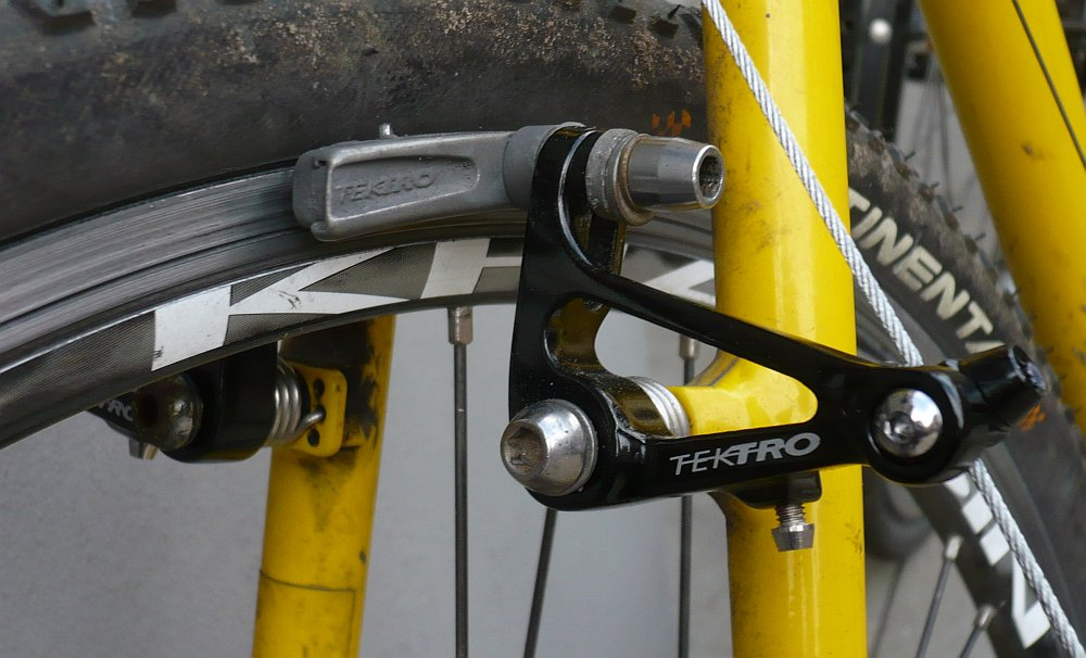 Cantilever brake Tektro 720